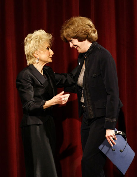 Rebbetzin Esther Jungreis with April Foley, United States Ambassador to Hungary